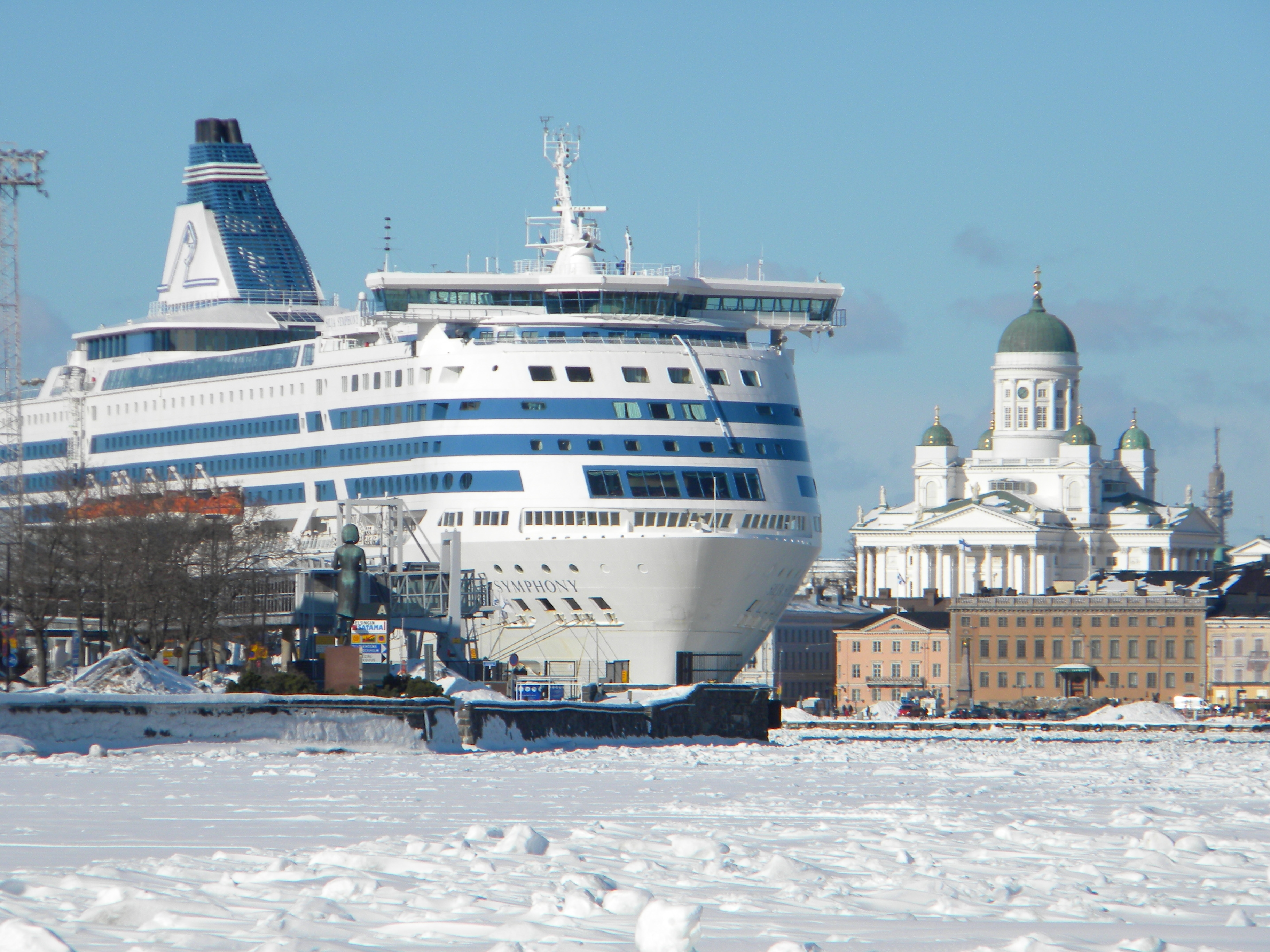 Silja Symphony in the South Harbor of Helsinki, Finland. Picture taken in the beginning of March on an icy winter showing icy sea lanes. Technical information on Silja Symphony: Built: 1991 Kværner Masa-Yards, Turku, Finland Tonnage: 58,377 gt, 35,961 nt, 5,340 dwt Length: 203.03 m Breadth: 31.93 m Draugth: 7.1 m Ice class: 1 a Super Main engine: 4 × Wärtsilä 9R46, 44,292 hp Speed: 21 knots Passengers: 2,852 Cabins: 995 Passanger cars: 395